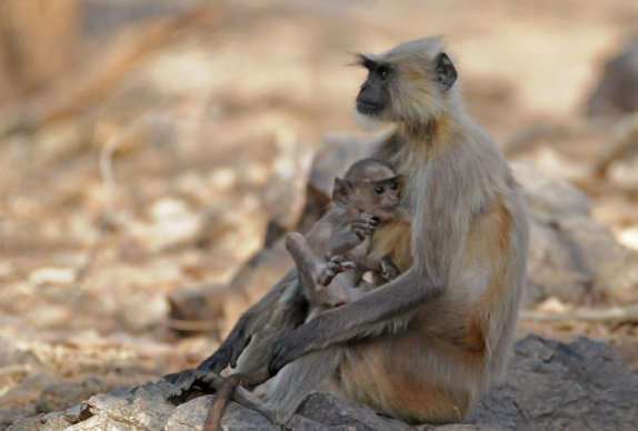 Just retuned from a safari trip to Ranthambhore National Park in Sawai Madhopur, Rajasthan. Though the National Park is better known for its magnificent tigers, other interesting mammals and birds in the Park make every visit worth the efforts and time spent. Tigers, of course are the USP of this park which was one of the first sanctuaries selected for Project Tiger. During the first two safaris, we did not have any significant tiger sighting, except for a long distance view of the male tiger sleeping at Rajbagh Lake. However, scenes like this one kept us enthralled! A Gray langur (Semnopithecus entellus) mother breastfeeding her baby doesn’t appear to mind our uninvited attentions. In fact, most mammals like Sambhar, Spotted deer or even the tiger does not appear to be overly mindful of human intrusions.